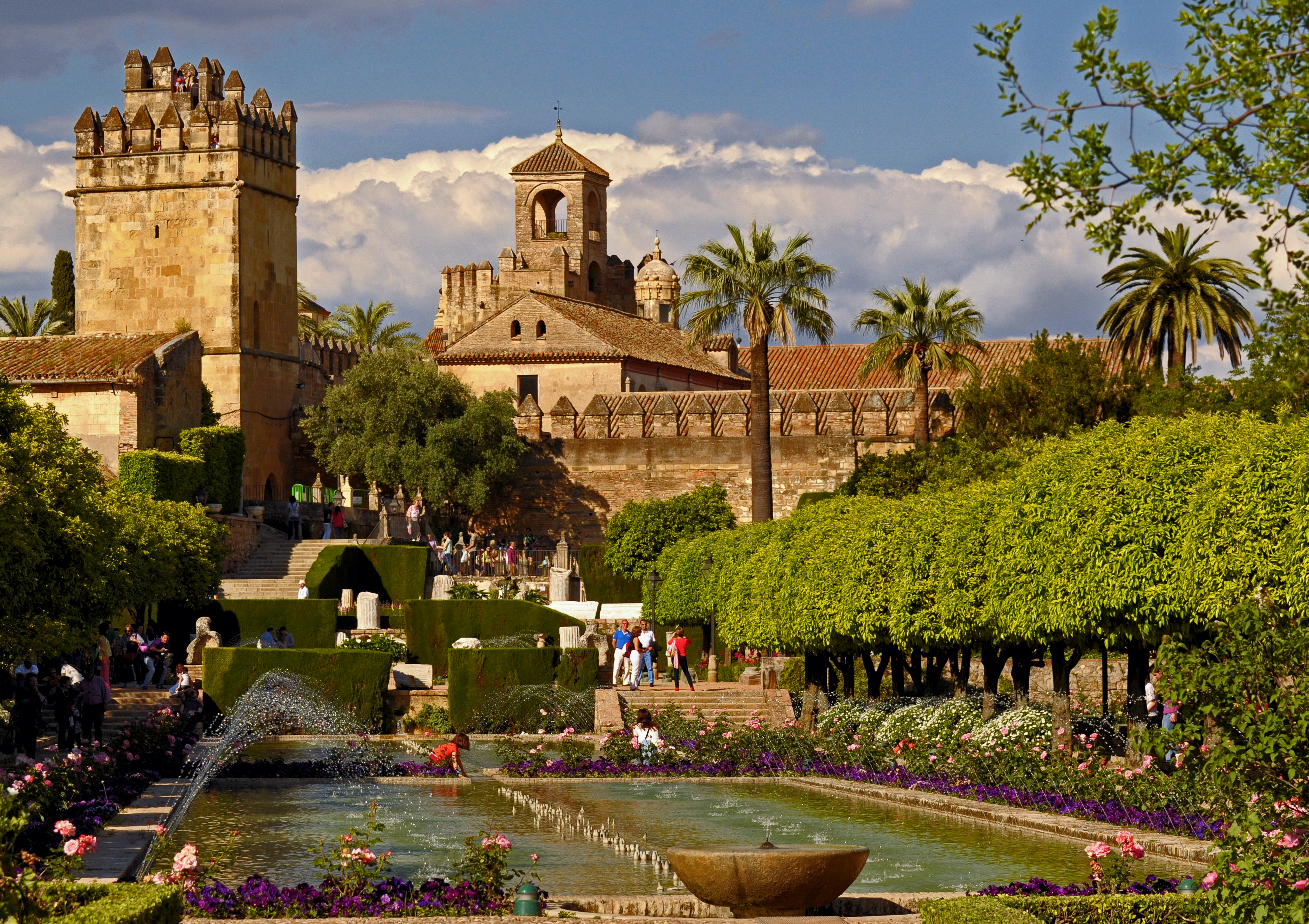 Gardens of the Alcázar de los Reyes Cristianos. Córdoba, Spain 2016